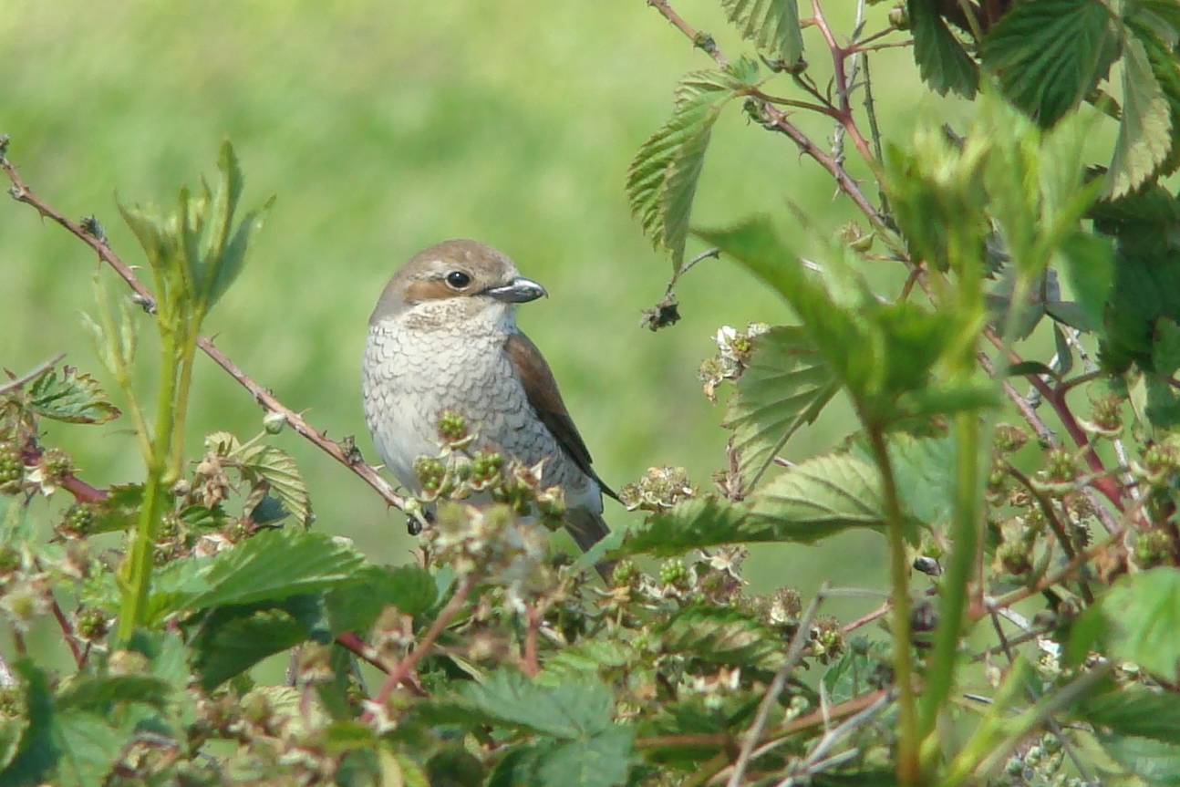 female Red-backed shrike on Blackberry, Naturpark Südheide, Germany